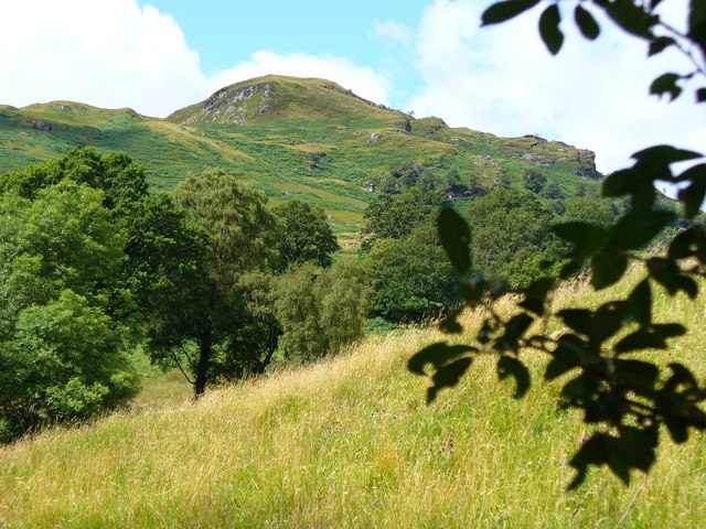 Meall Mor. This distinctive grassy hill with steep eastern slopes is seen here from Strone, on the shore of Loch Katrine.